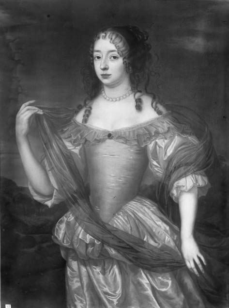 Henriette Catherine of Nassau